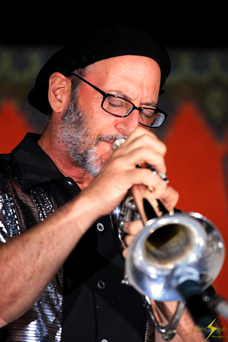 Jeff Oster performing at San Pancho Music Festival in 2015